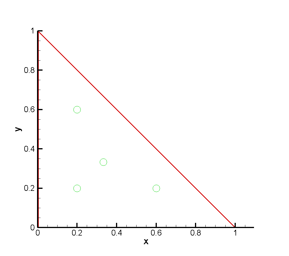 Numerical integration on triangle domain, 4 points formula